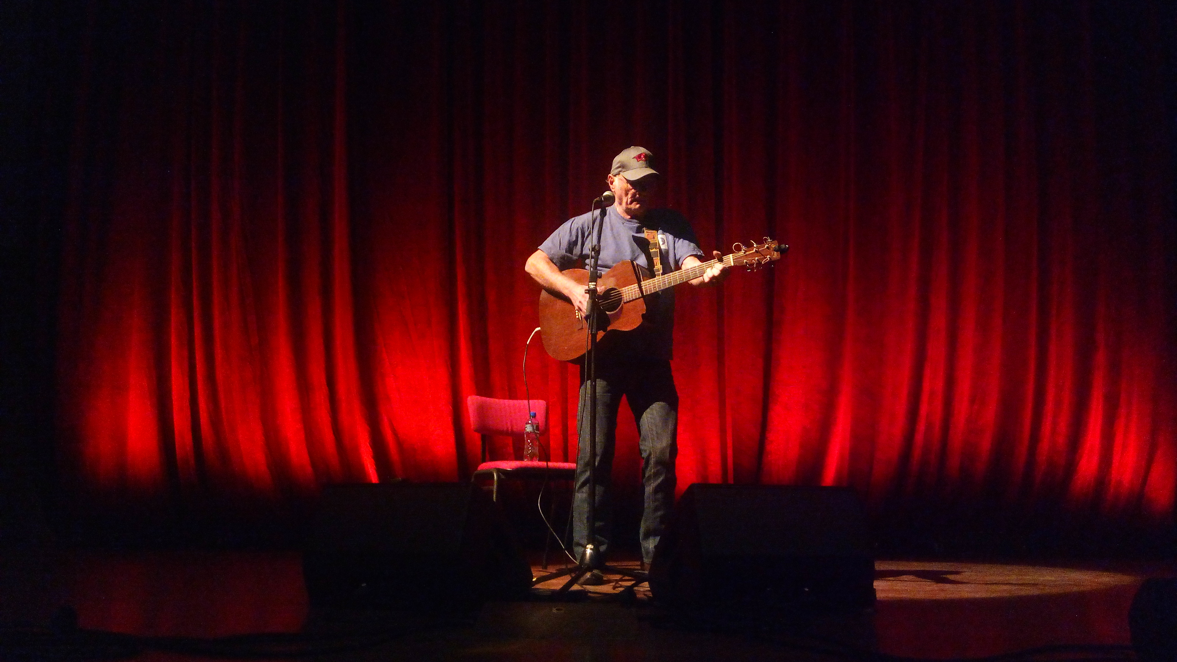 Michael Chapman at the Ramblin Roots Festival 2017 (Vredenburg Utrecht, Netherlands)